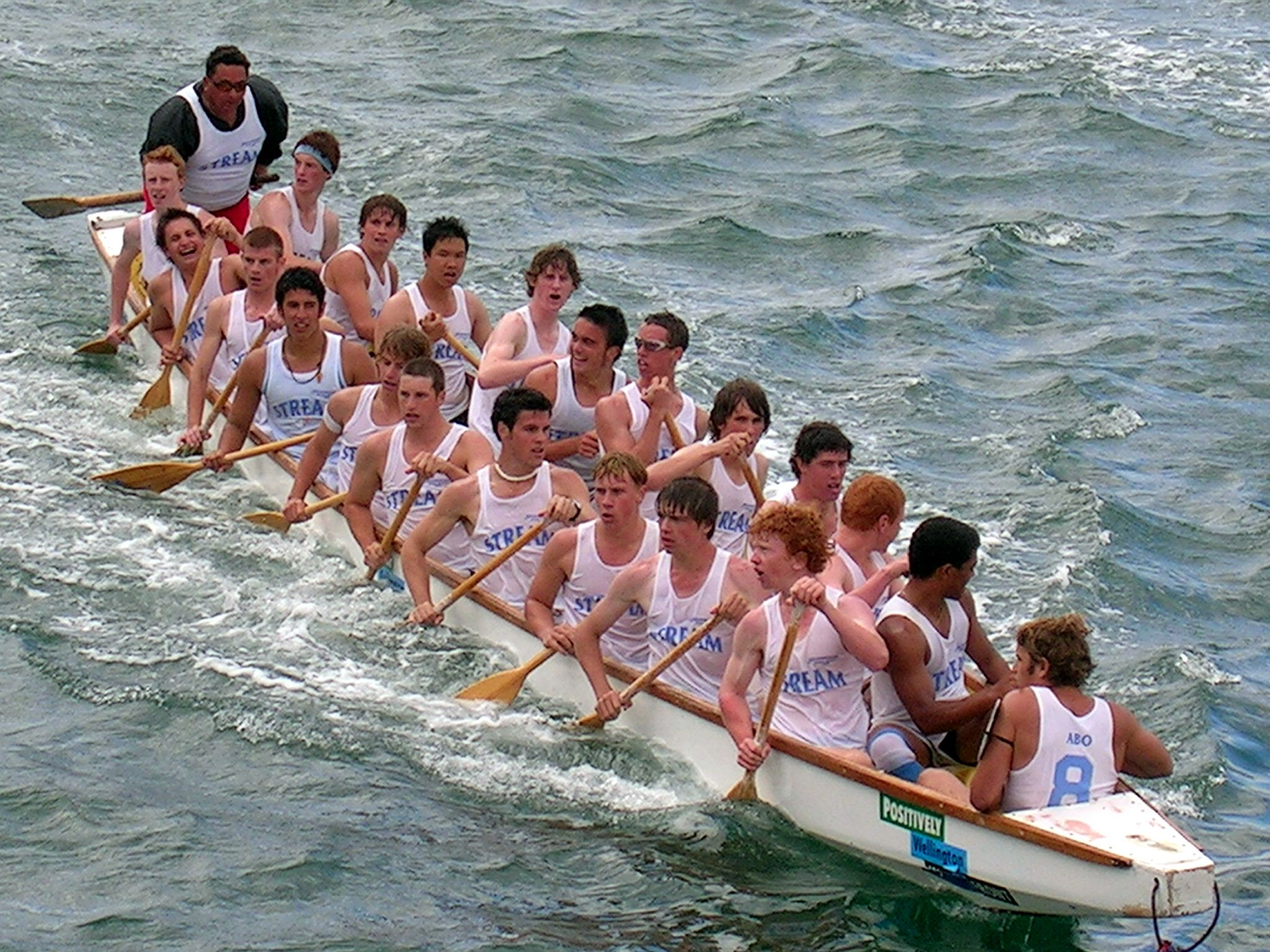 Contestants in the Wellington Dragon Boat Festival 2005, Wellington Harbour, New Zealand